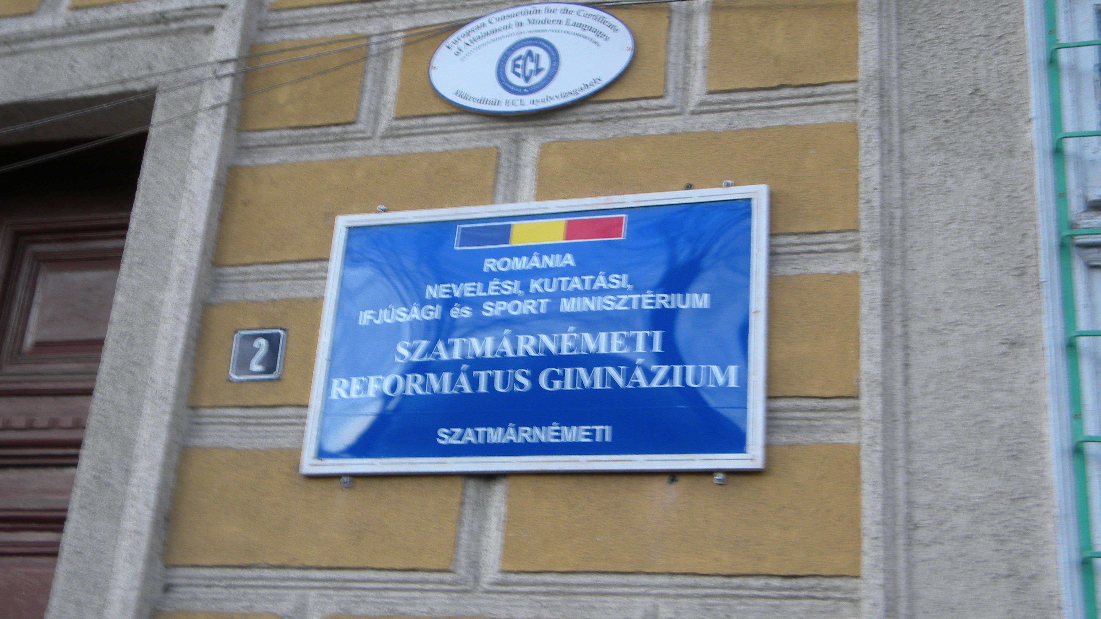 Reformed College, Satu Mare/Szatmárnémeti/Sathmar